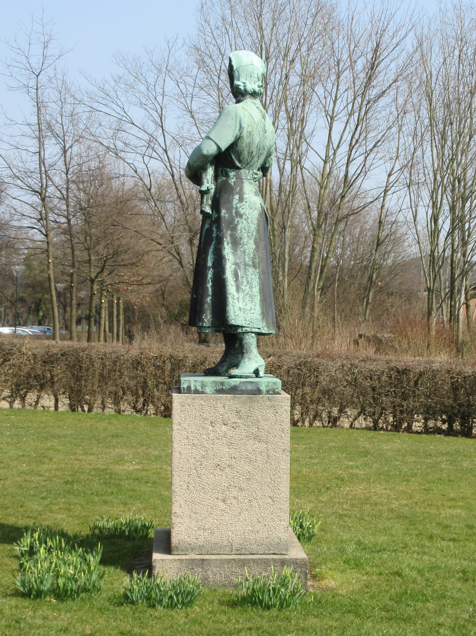 The Humane Nurse in front of Bispebjerg Hospital in Copenhagen, Denmark